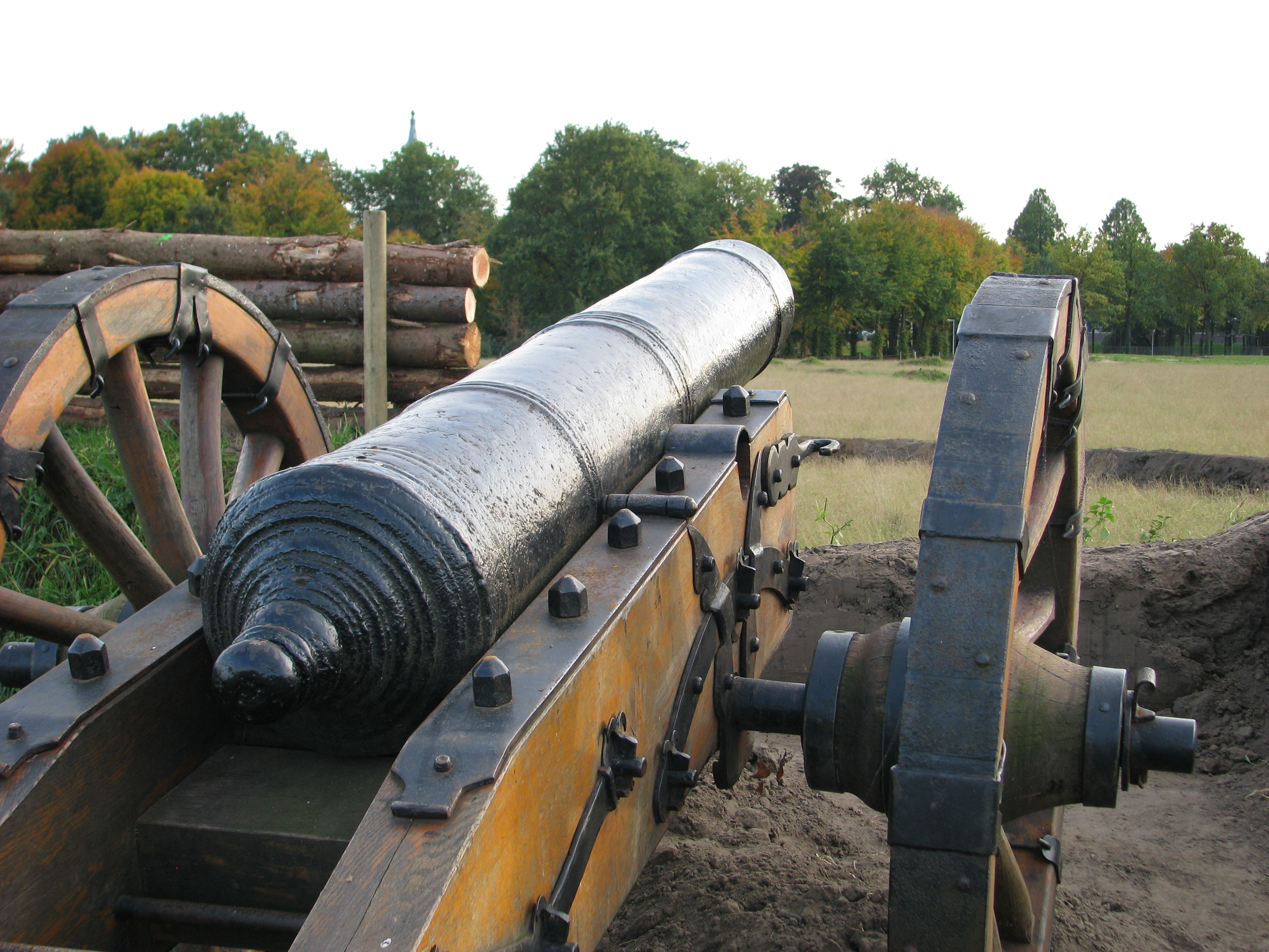 Gun battery (the Grols Kanon, left after the Siege of Groenlo of 1627, led by Frederick Henry), waiting to be used in the Slag om Grolle (Battle for Groll) in 2008.